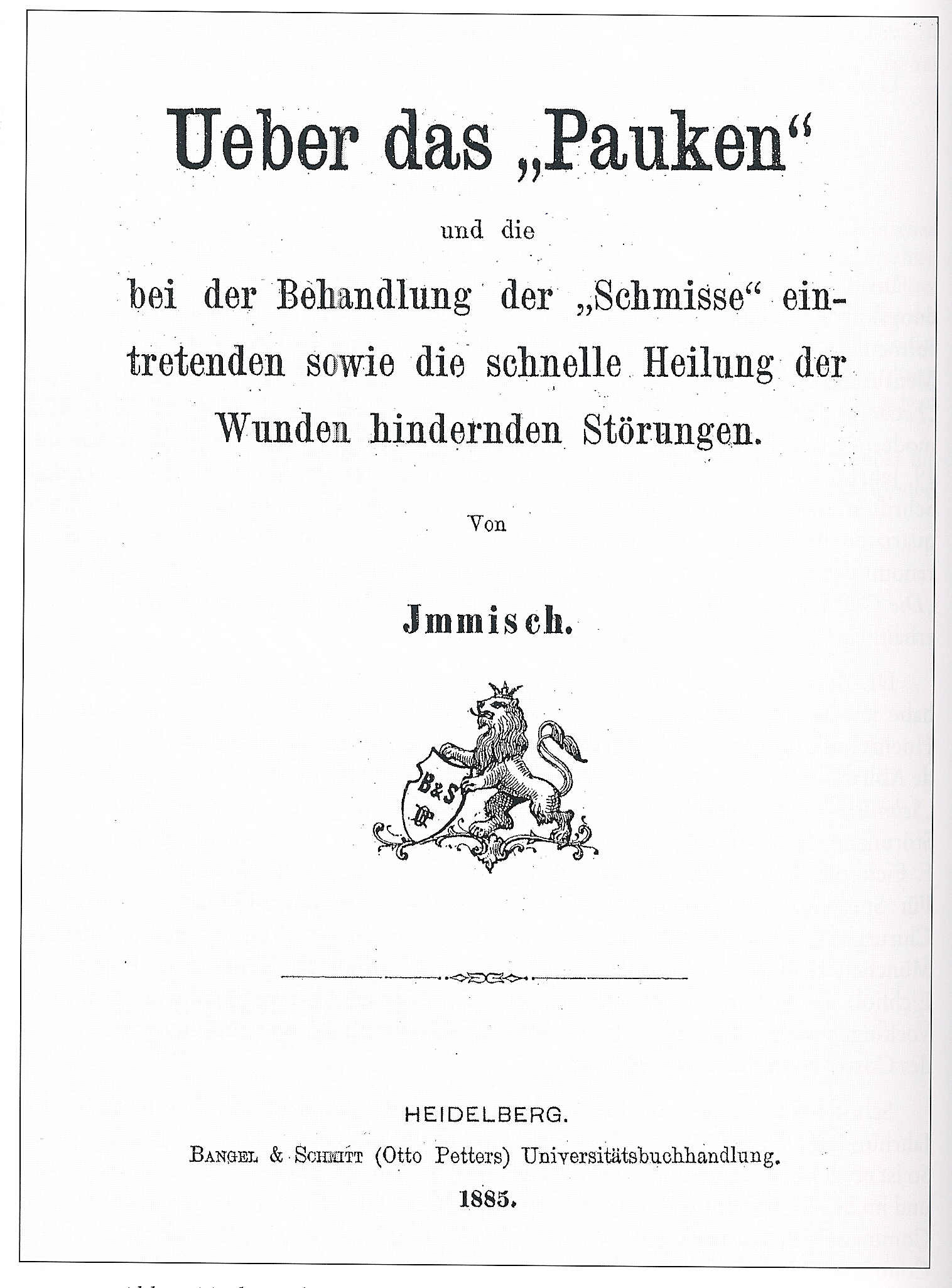 Ueber das "Pauken"..., first page of a medical book from 1885 by Friedrich Immisch (1826-1892), „Pauken“ is an old german expression for Academic fencing